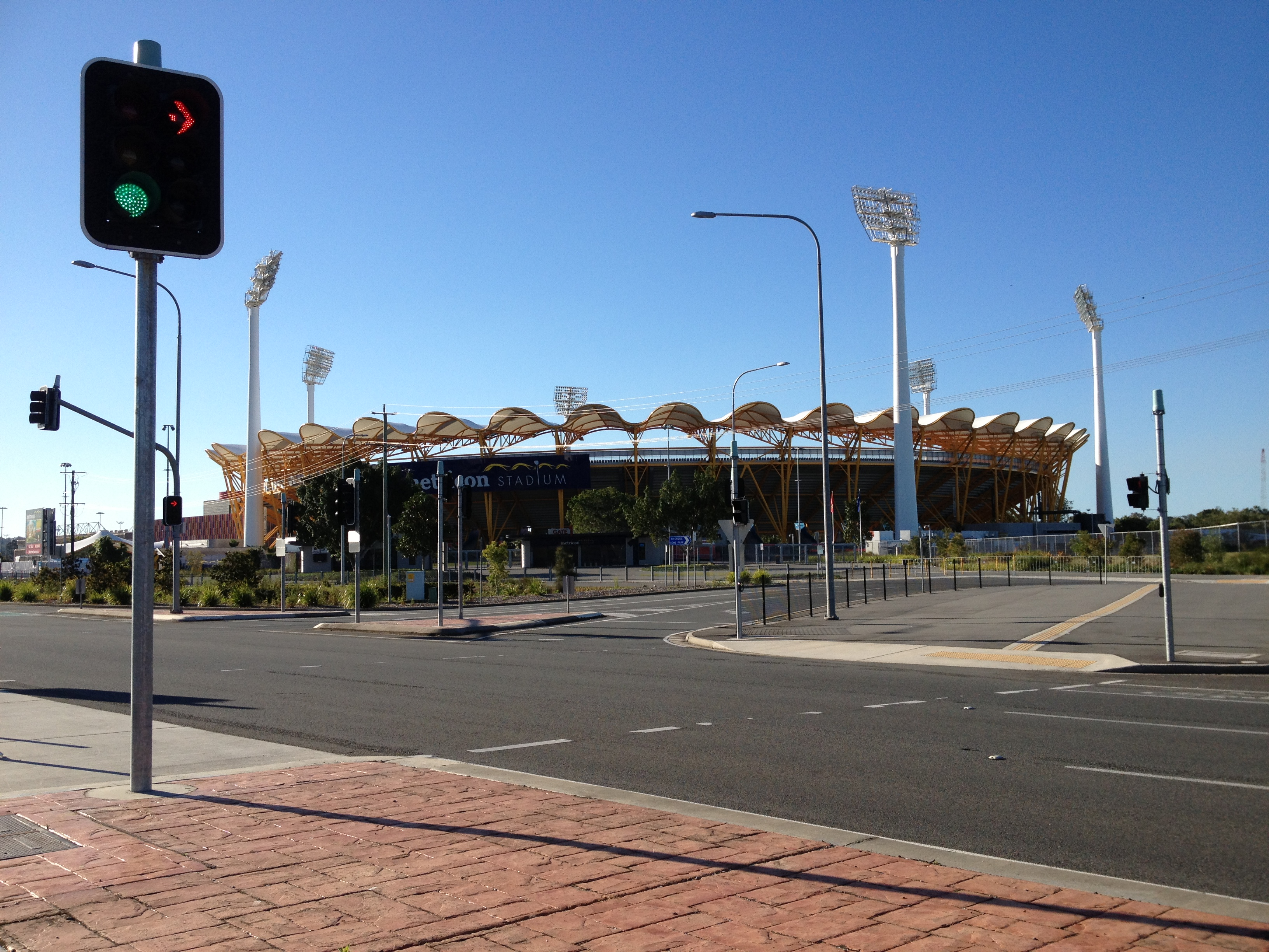 Street view of Carrara Stadium (Metricon Stadium)